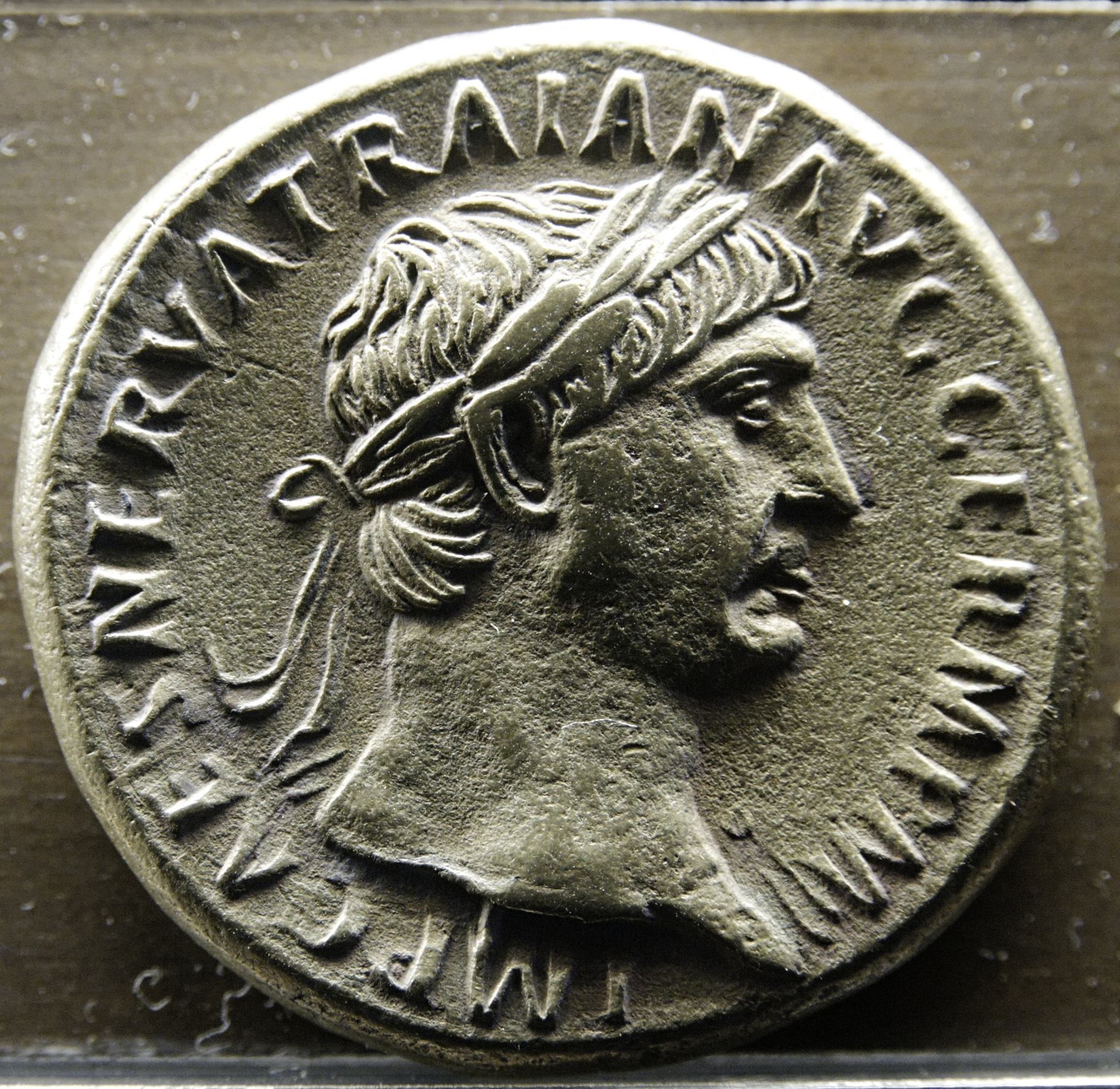 Coin of Trajan.